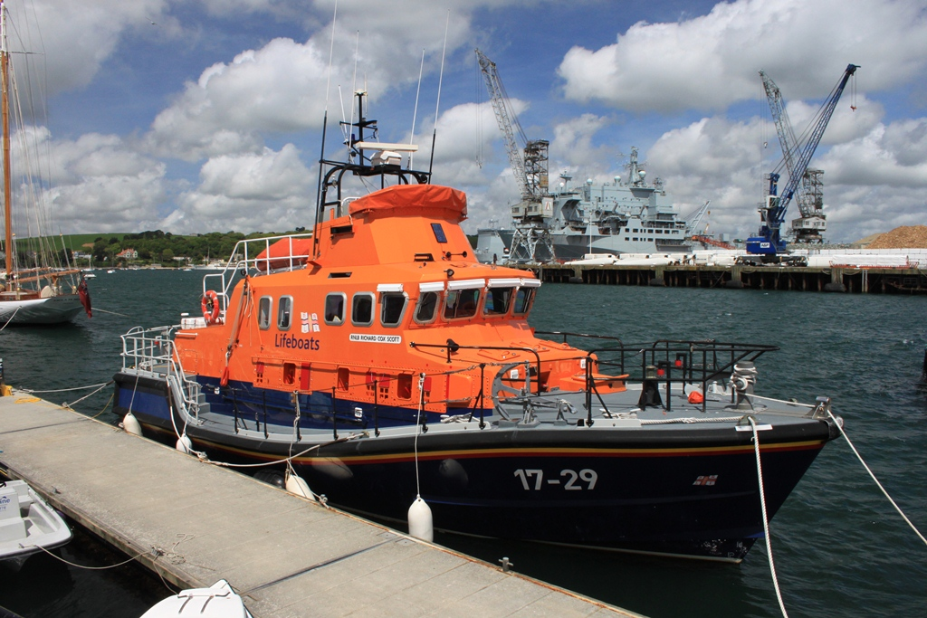 The Falmouth Lifeboat, Severn Class Richard Cox Scott moored in Port Pendennis Marina behind the National Maritime Museum.